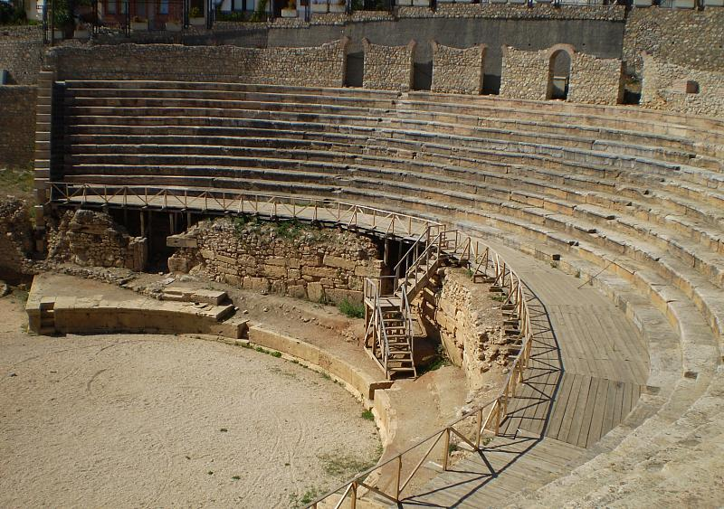 Amphitheater, Ohrid, Macedonia